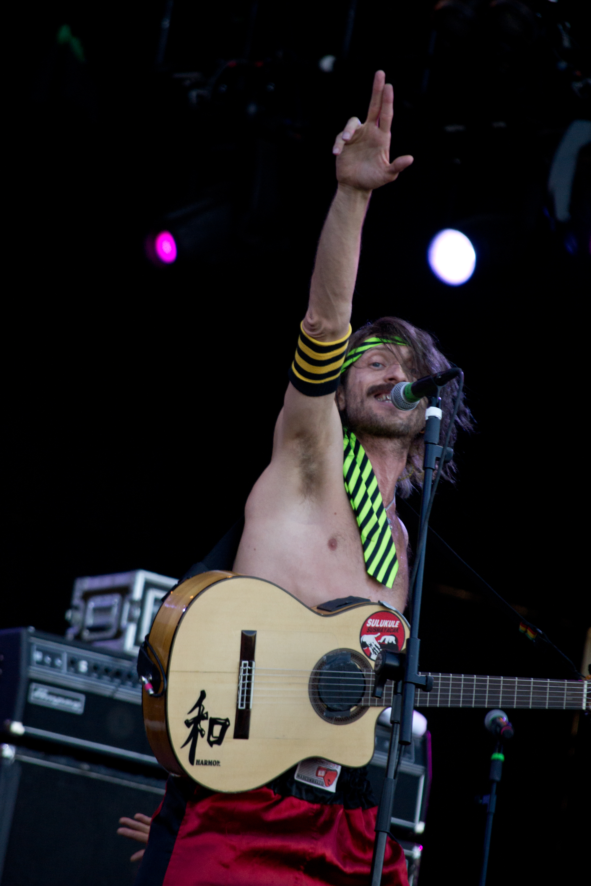 Gogol Bordello in Rock in Rio Madrid 2012.